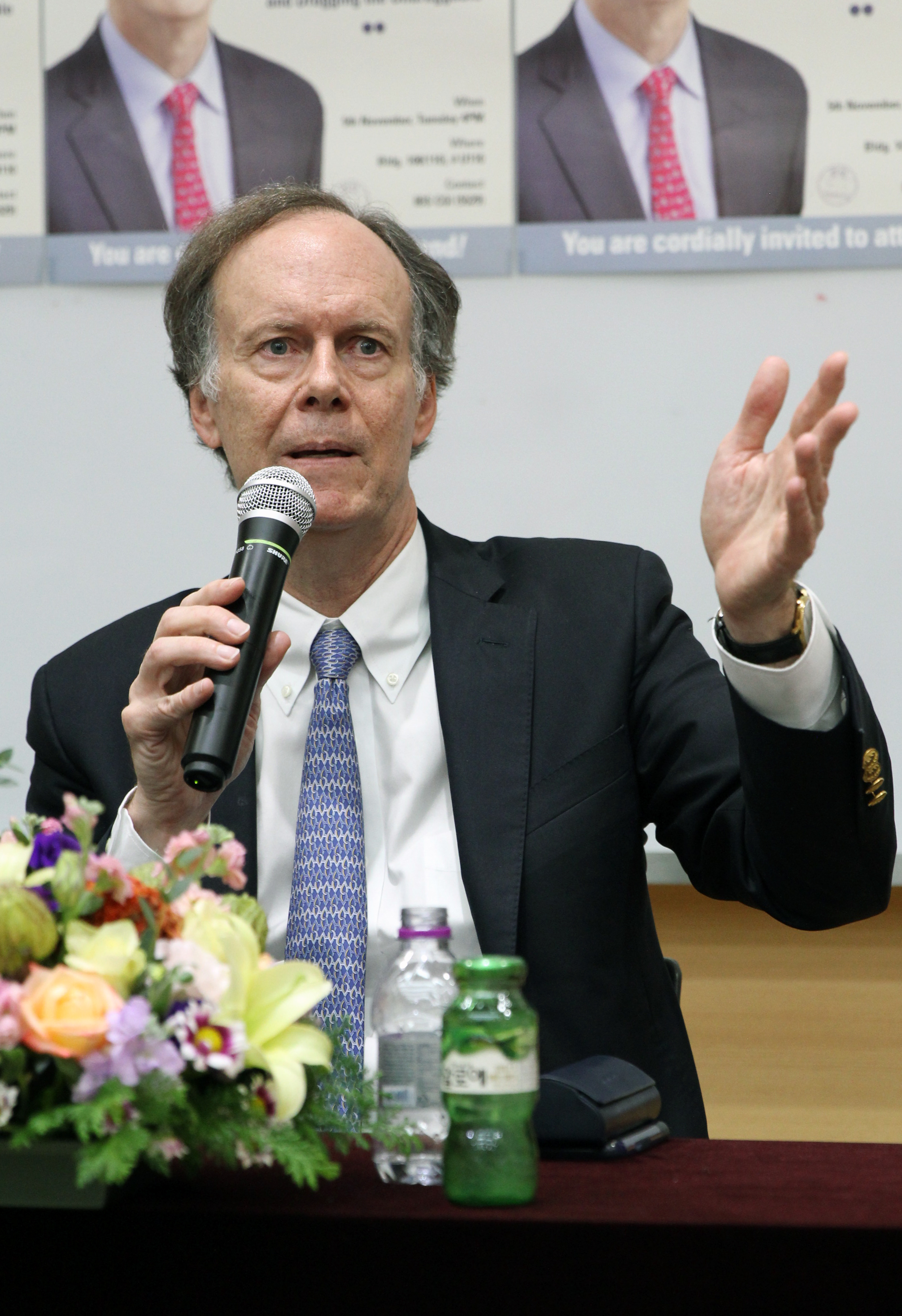 2019 American Nobel Laureate William Kaelin Jr. giving a speech at the IBS Center for Genomic Integrity (CGI) at UNIST in Ulsan City.